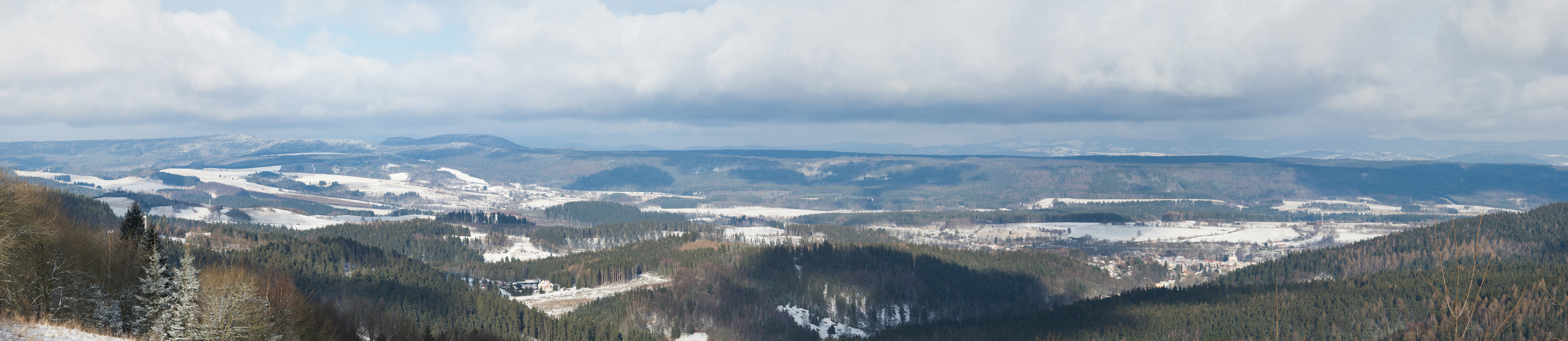 Obniżenie Dusznickie from Zieleniec